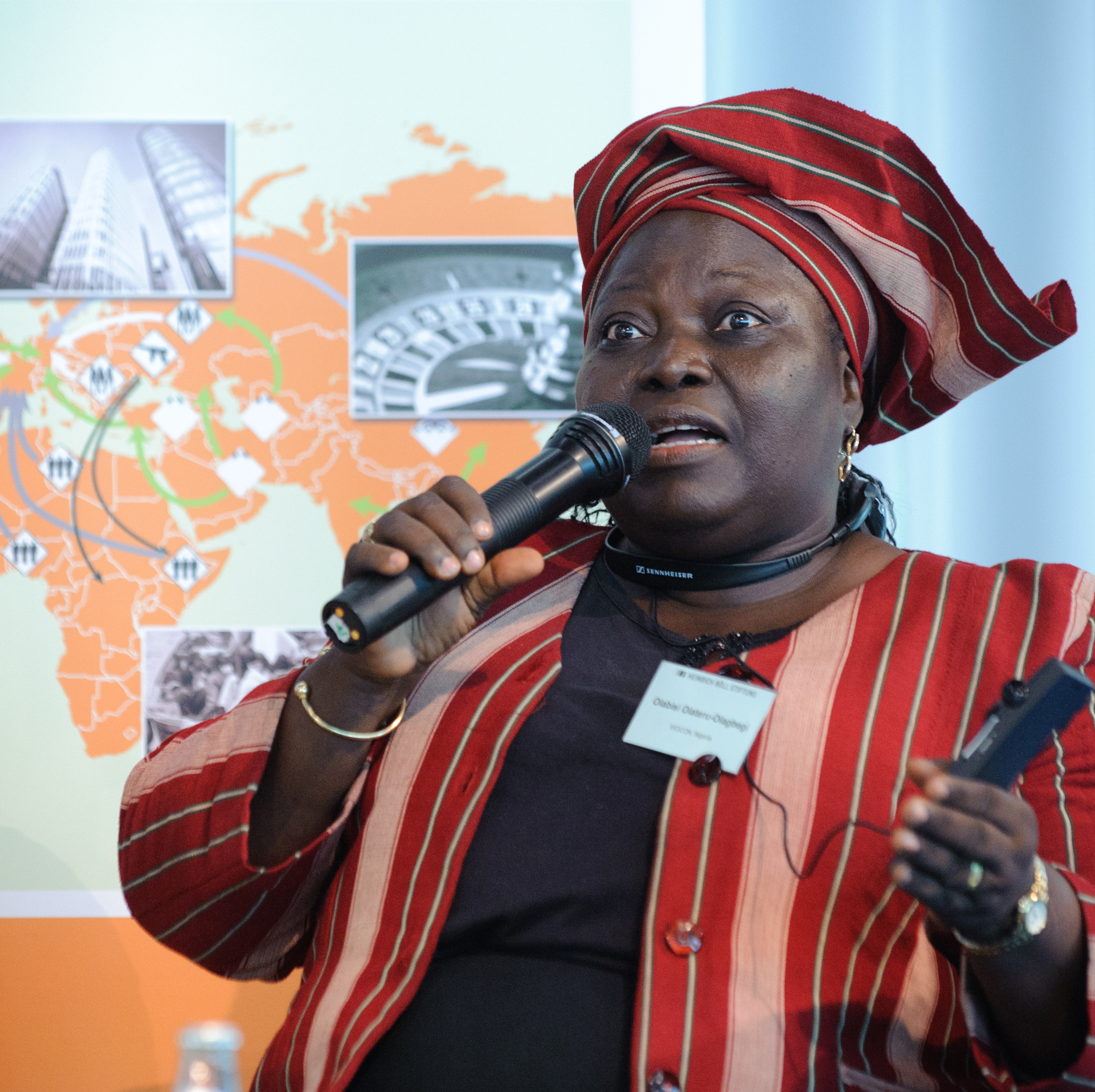 Bisi Olateru Olagbegi (Womens Consortium of Nigeria WOCON Lagos, Nigeria) Foto: Stephan Röhl